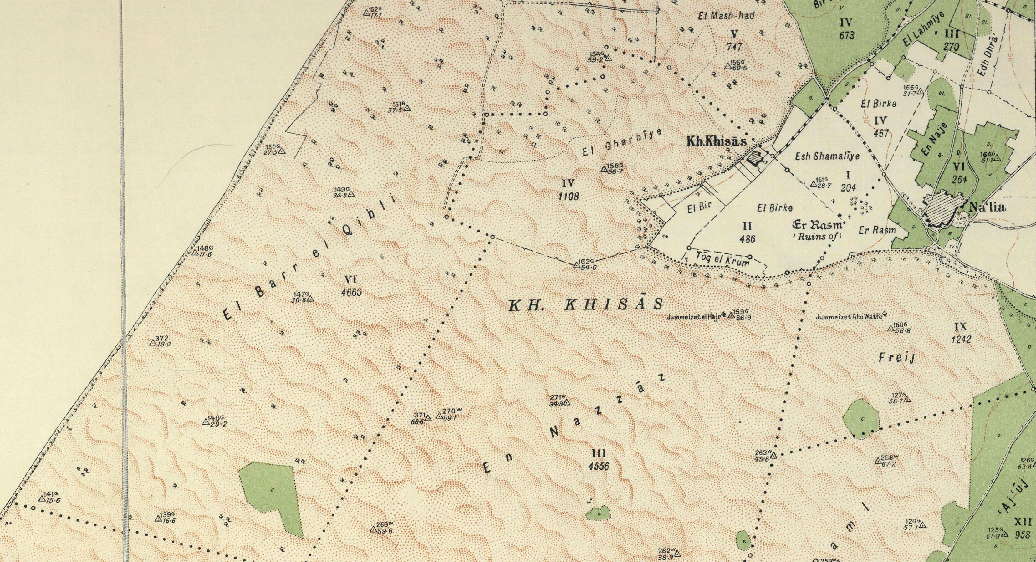 Ni'liya 1931 1:20,000